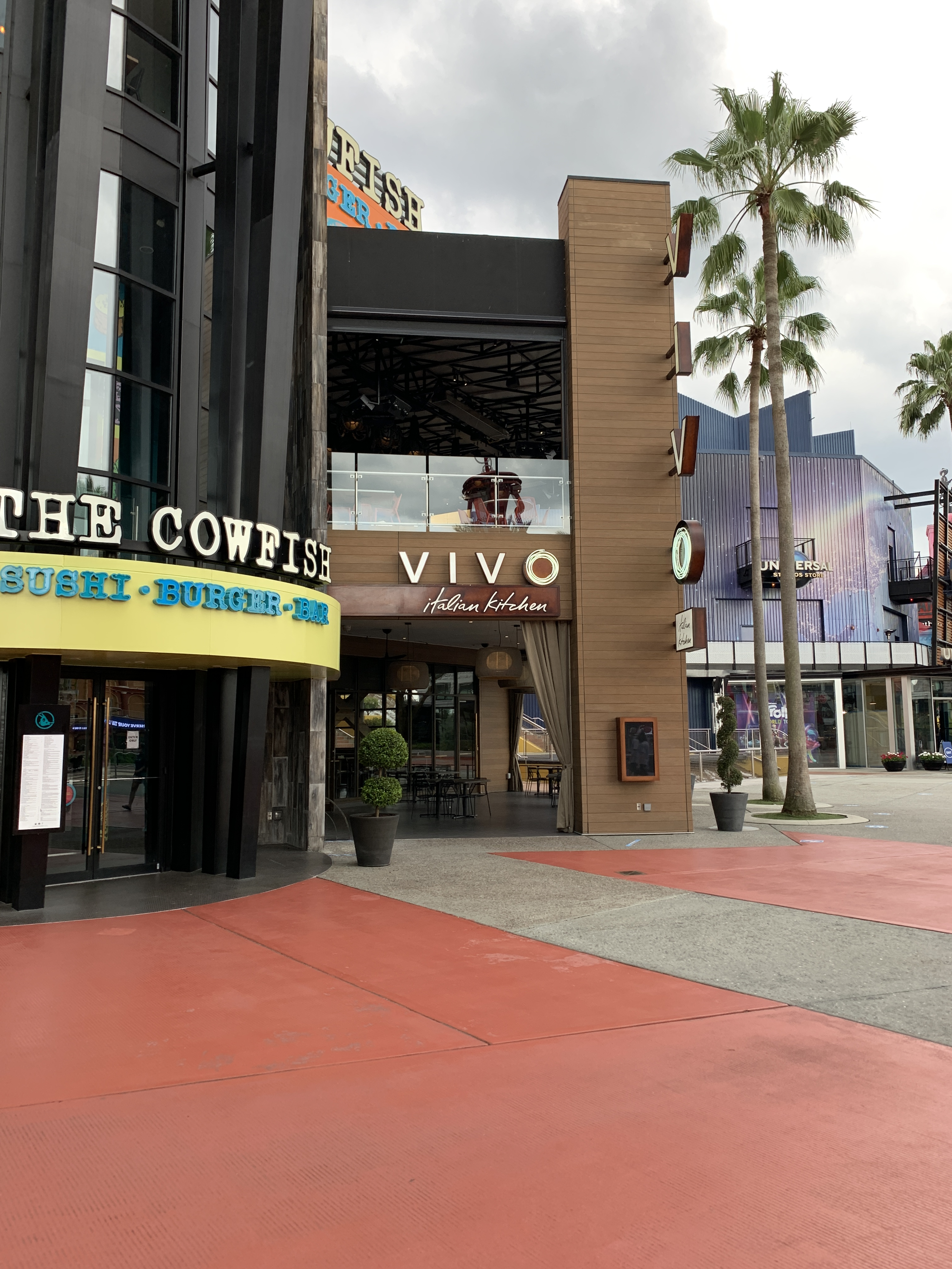 Vivo Italian Kitchen, Universal Studios, Florida